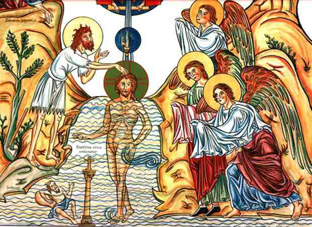 The baptism of Jesus by John the baptist, as illustrated in the Hortus deliciarum.